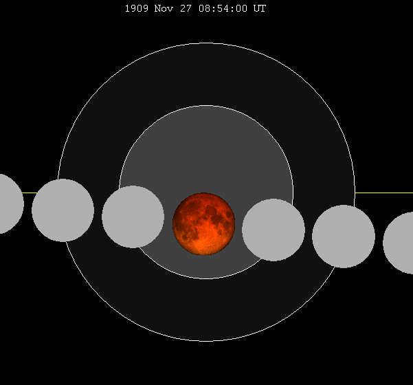 November 1909 lunar eclipse chart of moon's lunar eclipse path through the earth's shadow. thumb